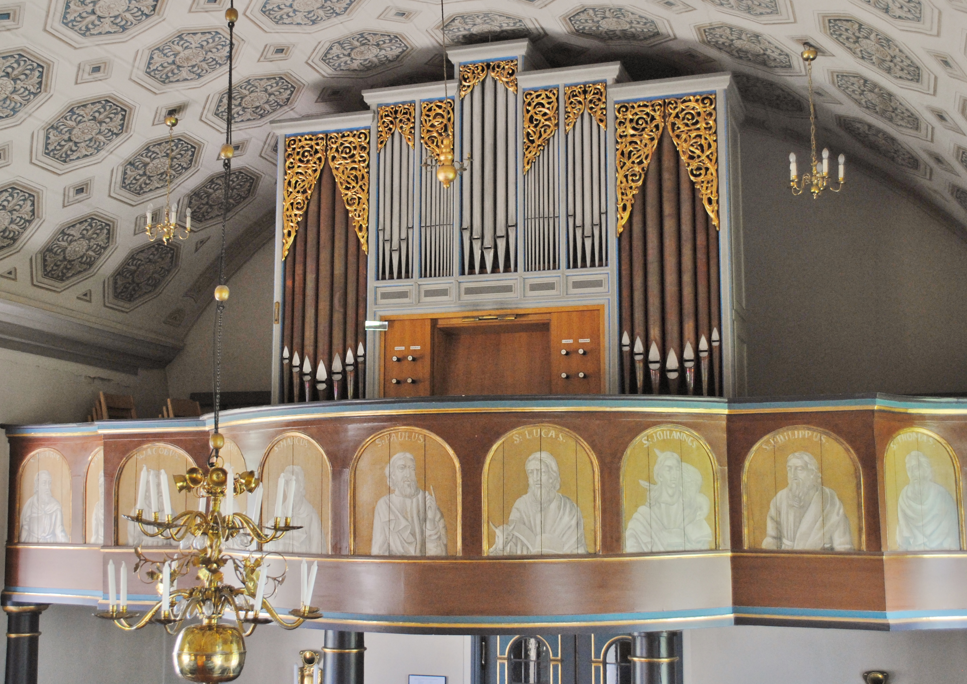 Uråsa Church.Organ.